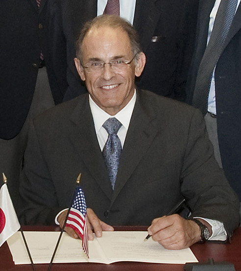 Signing the six-year extension of the agreement on the physics program at the Relativistic Heavy Ion Collider and the RIKEN BNL Research Center (RBRC) are (front) Maki Kawai, executive director of Japan’s RIKEN, and Sam Aronson, BNL director. With them are members of the RBRC Management Steering Committee, RBRC and BNL observers, RIKEN administrative staff, and other distinguished attendees. At Brookhaven National Laboratory.